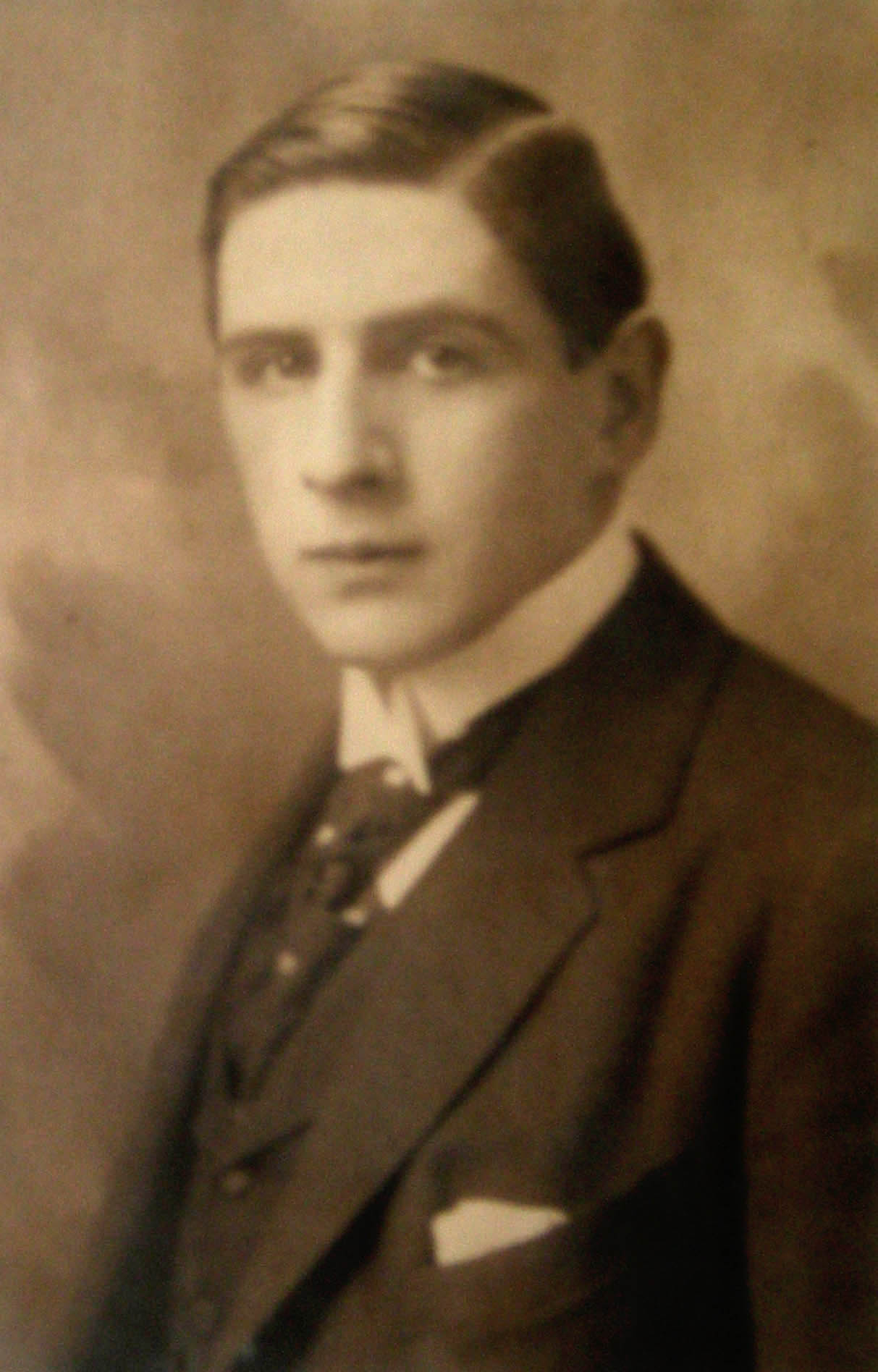 Portrait photograph of Austrian writer Hermann Broch. A miniature of this ~13x18cm size photograph (and anotherone of his bride) was used on the menu on occasion of Broch's first wedding. The portrait therefore dates 1909.